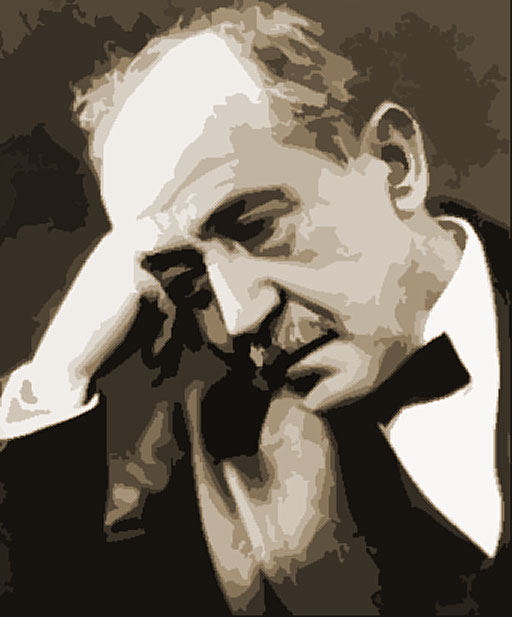 A vectorized image of Egyptian poet Ahmed Shawqi. Ahmed Shawqi (1868 - 1932) (أحمد شوقي) was an Arabic Language poet and dramatist who pioneered the modern Egyptian literary movement, most notably introducing the genre of poetic epics to the Arabic literary tradition. Shawqi also produced distinctive poetry that is widely considered to be the most prominent of the 20th century in Egypt